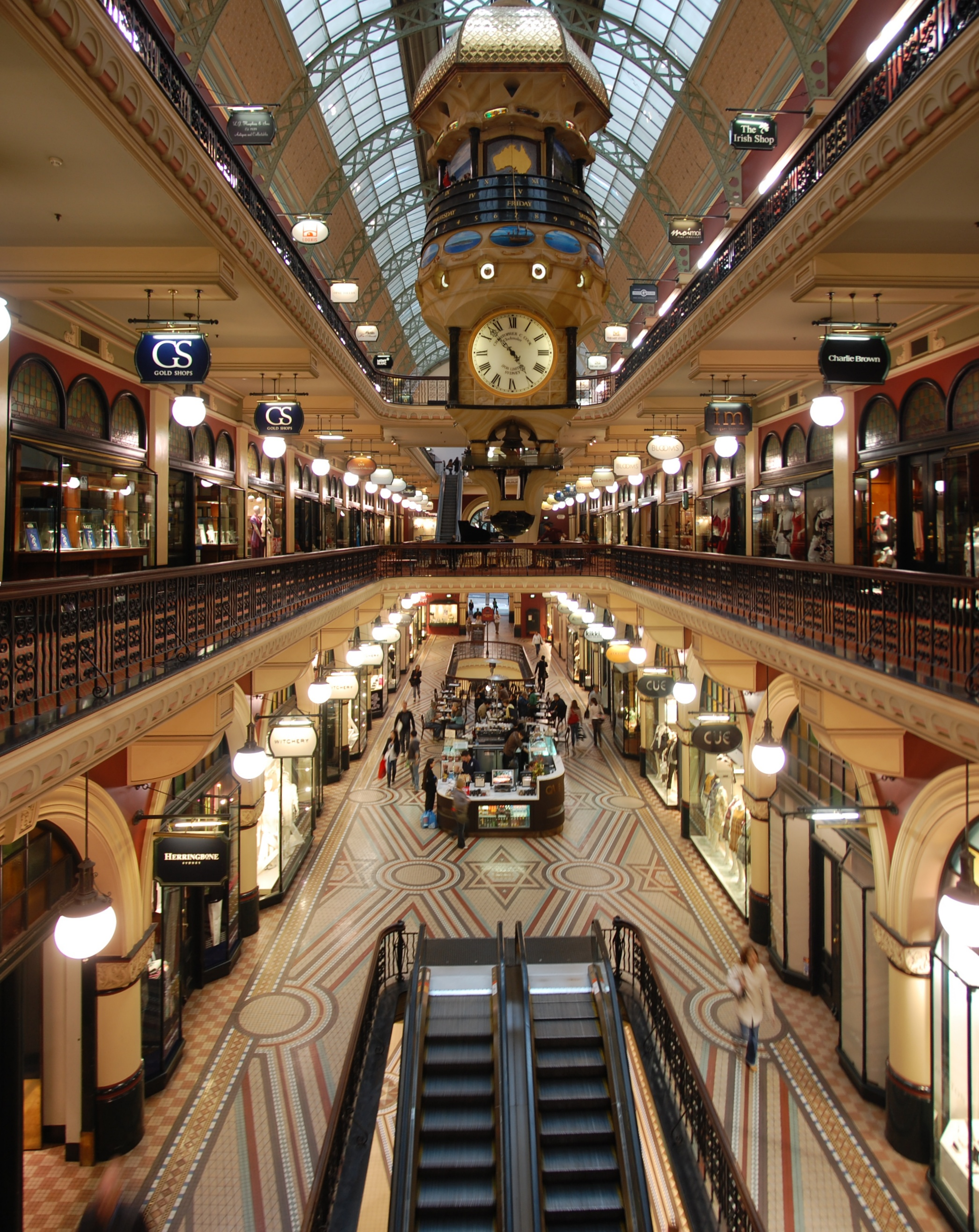 Interior of the Queen Victoria Building, Sydney. (Composite of 2 shots using Hugin)